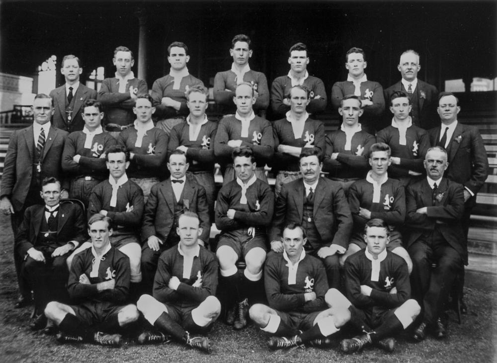 Front row - J. Hunt, T. Gorman, W. Paten, J. Cuneen. Second row - G. Wilson (Manager, D. Thompson, J. Larcombe, J. Craig (Captain), W. Kuder (Manager & Secretary of Queensland Rugby League), E. Frauenfelder, J. G. Stephenson (Selector). Third row - J. Tennison (Selector), J. Sigley, W. Spencer, P. Parcells, N. Potter, H. Steinohrt, C. Broadfoot, C. Aynsley, P. Frawley (Visitor). Back row - C. Noble (Selector), J. McBrien, J. Bennett, V. Armbruster, Jno. Purcell, Jim Purcell, V. Jensen (Visitor).